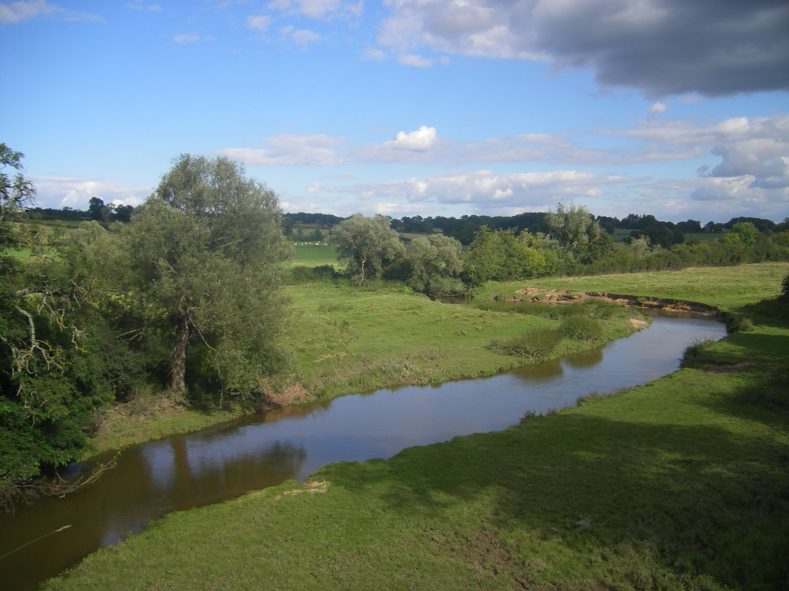 The Acolin where crosses th D978A route (southward Decize)